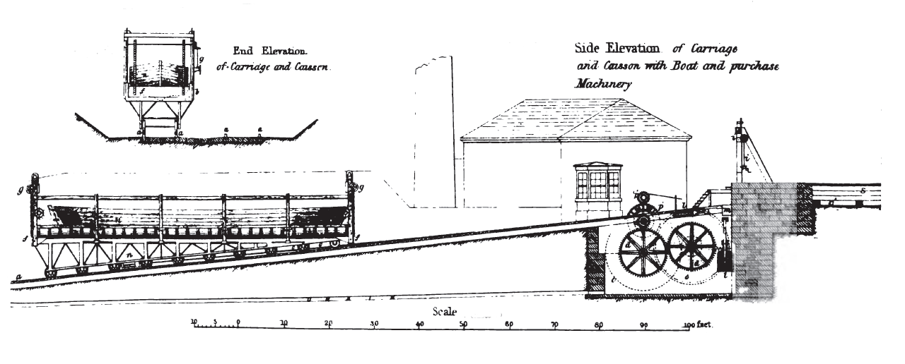 Elevation and section of the machinery at the head of the Blackhill Incline on the Monklands Canal, Scotland